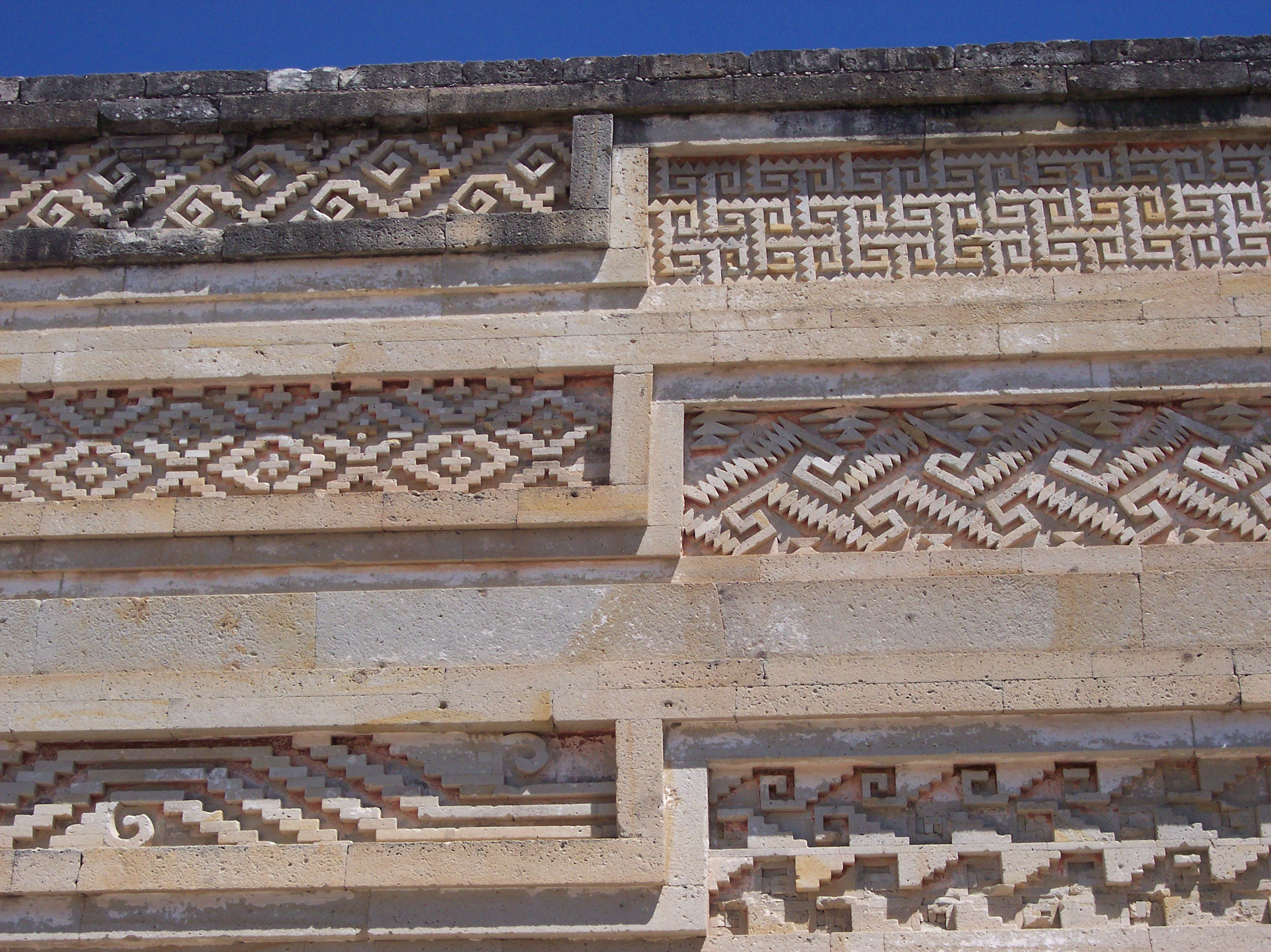 Mitla details in the main building. Image from the archeological site Mitla. Oaxaca, Mexico.